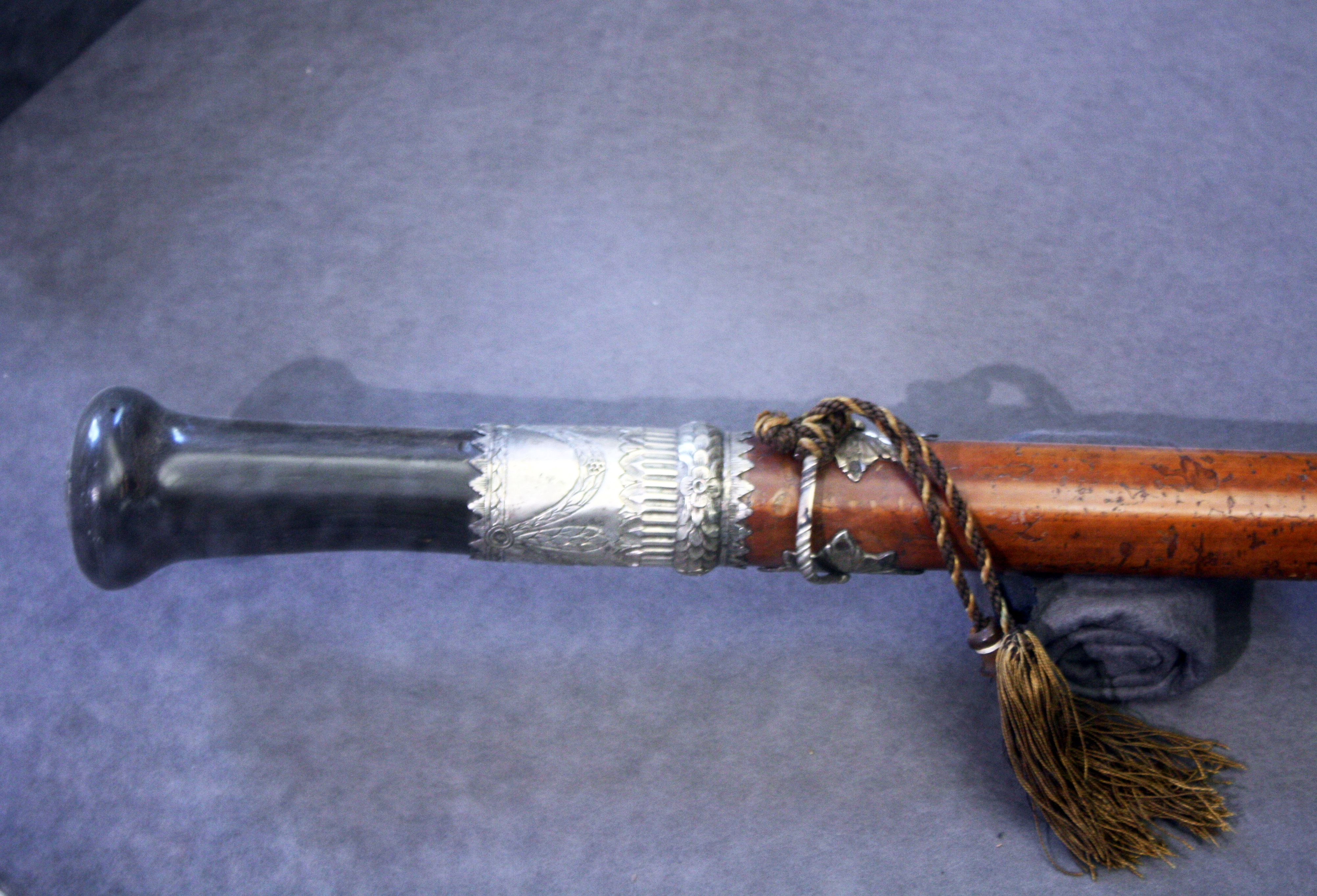 Insignia of a Cologne court usher in former times